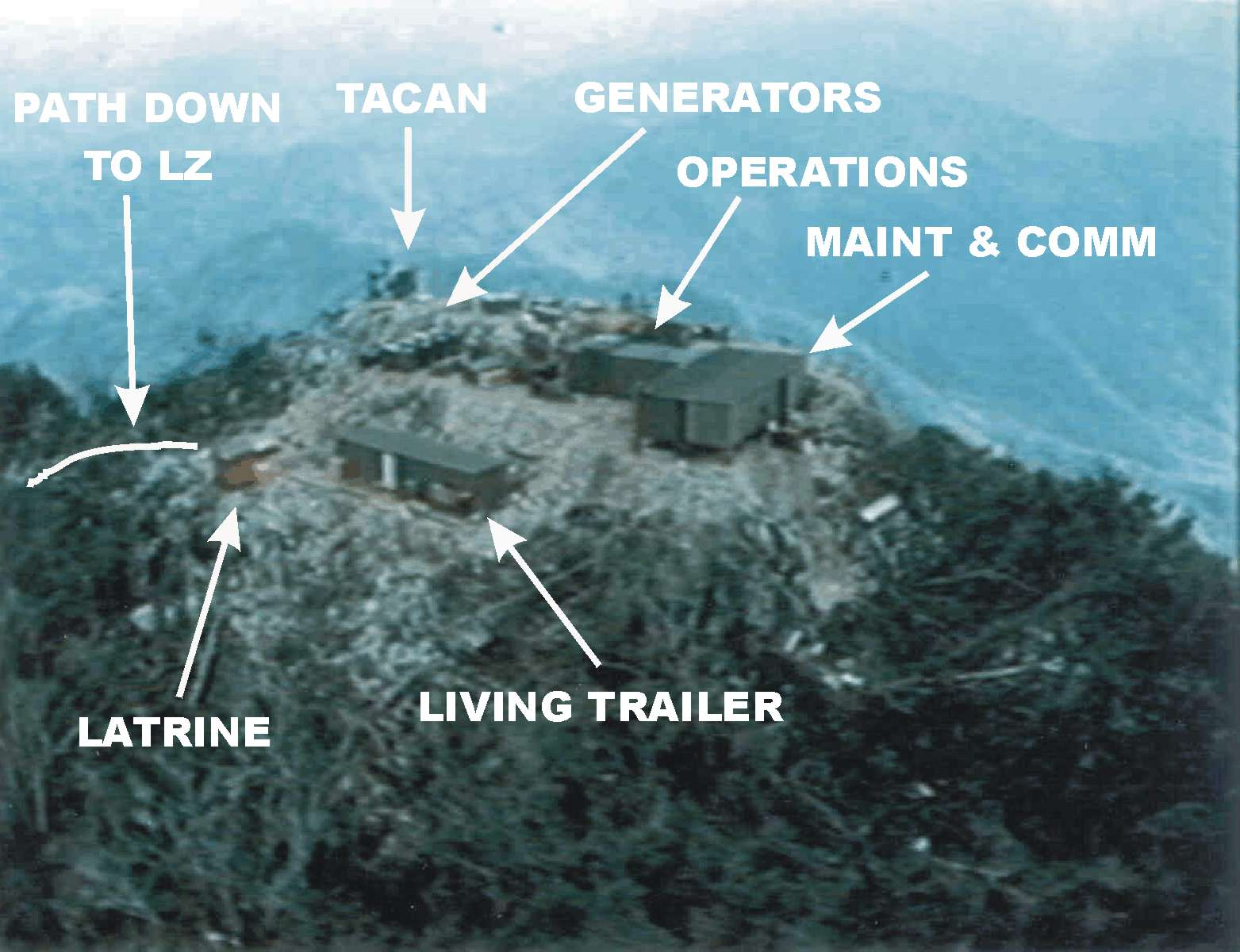 Lima Site 85 in Laos, see Battle of Lima Site 85.